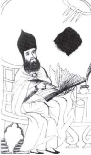 Armenian scientist of 14th-15th centuries Hakob Crimetsi